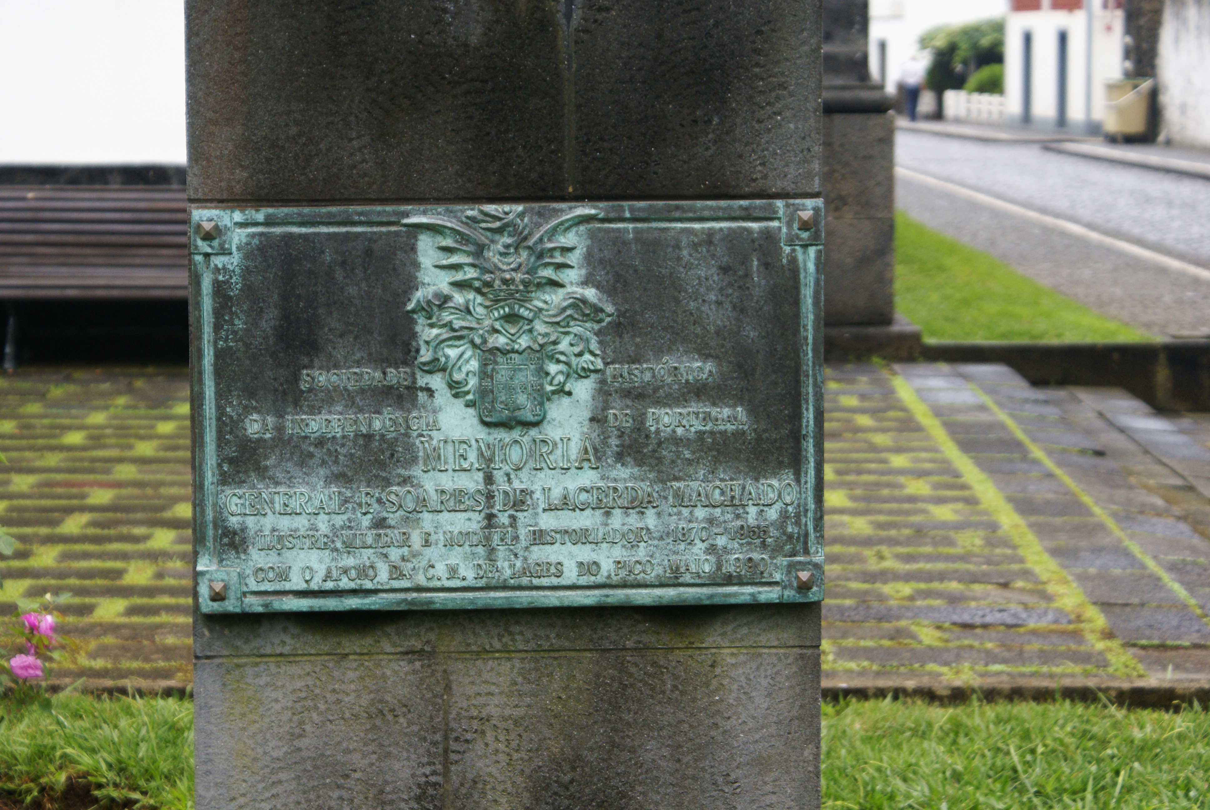 General Francisco Soares Lacerda Machado, placa Comemorativa, concelho das Lajes do Pico, ilha do Pico, Açores, Portugal